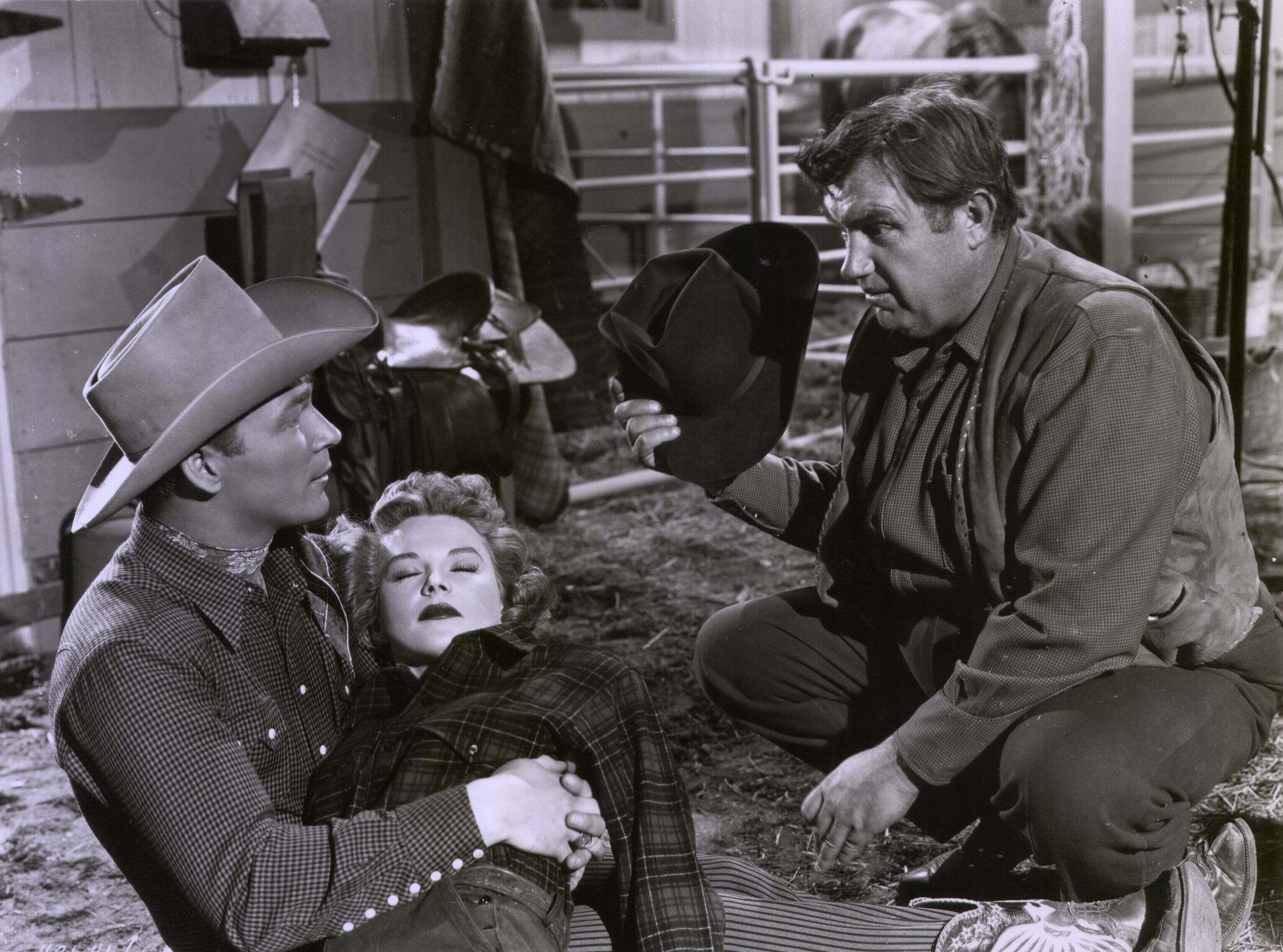 L. to R. : Roy Rogers, Jane Frazee, and Andy Devine in Under California Stars (1948) - publicity still (cropped)